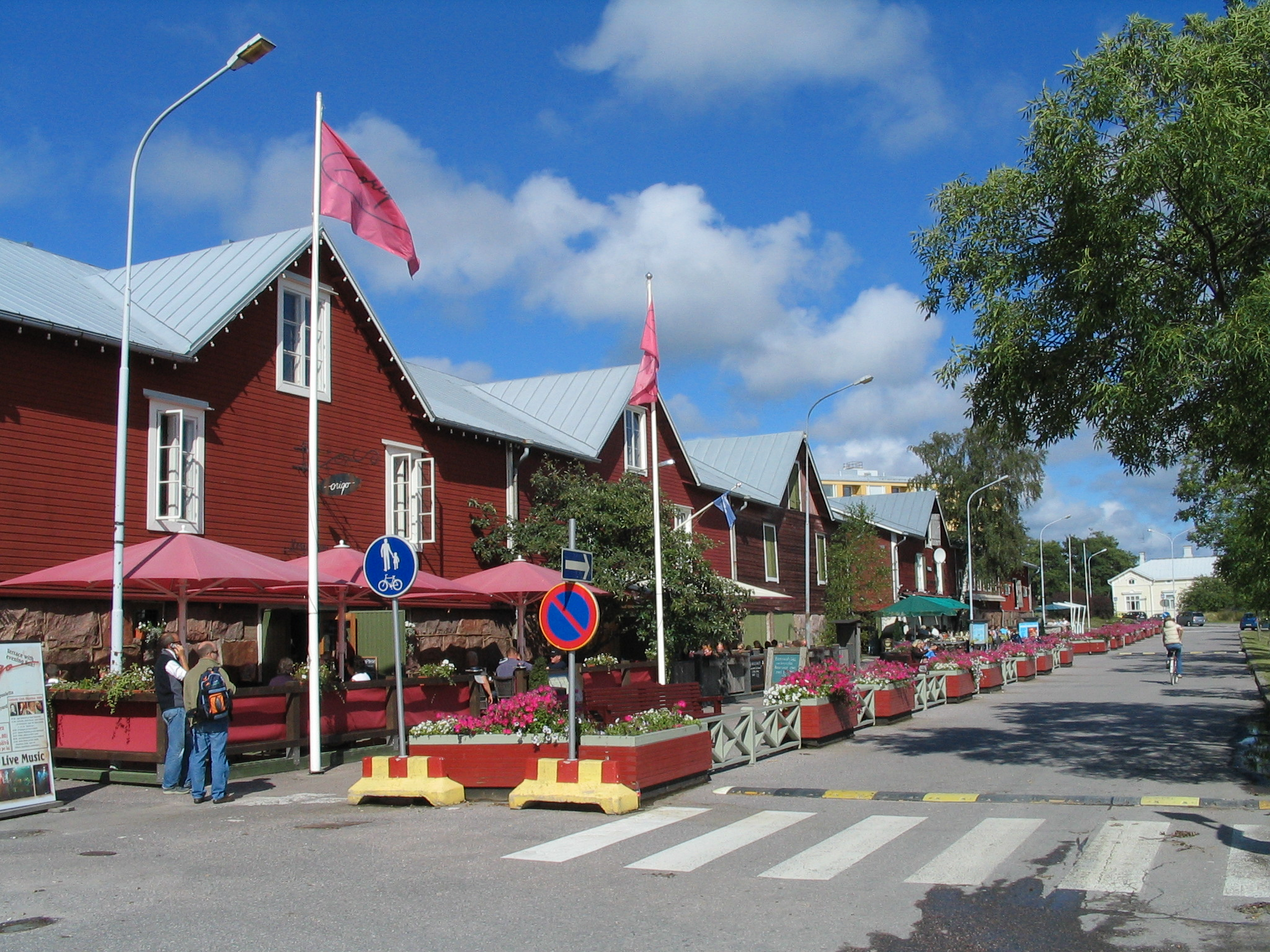 Old warehouses in East Harbor of Hanko.